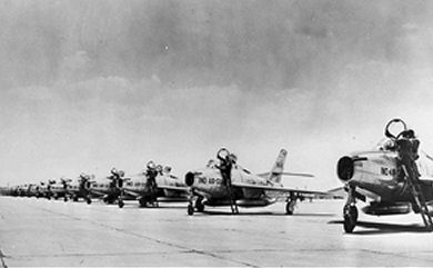 U.S. Air Force Republic F-84F Thunderstreak fighters of the 163rd Fighter Squadron, Indiana Air National Guard, assigned to US Air Forces Europe, Chambley Air Base, France, in response to the "Berlin Crisis" as the Soviet Union isolated East Germany and began to build the Berlin Wall in August 1961.